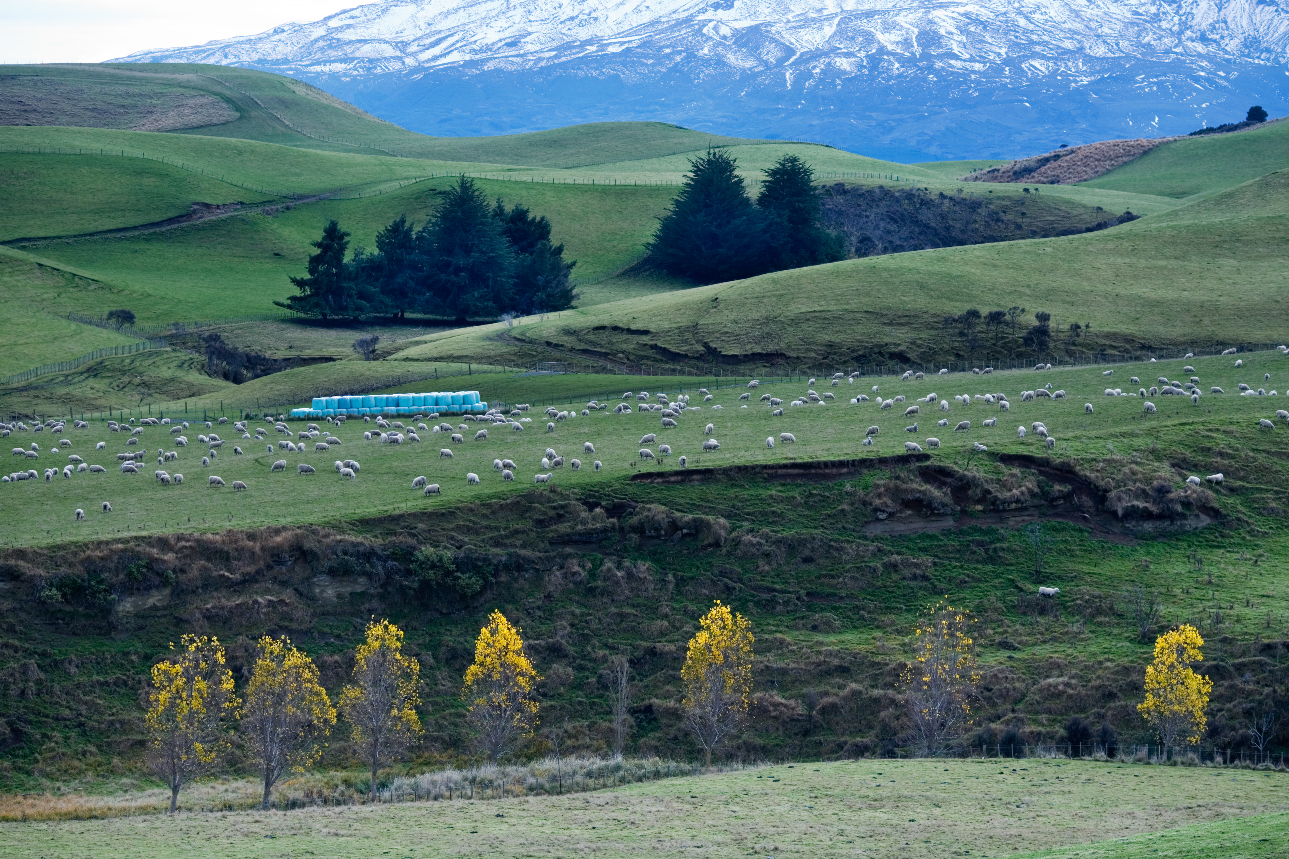 Sheep in New Zealand Landscape close to Mount Ruapehu, 2006